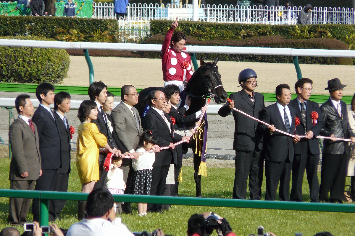 Chukyo_Racetrack_07